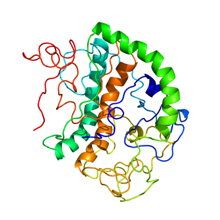 C21orf58 structure generated from Phyre2